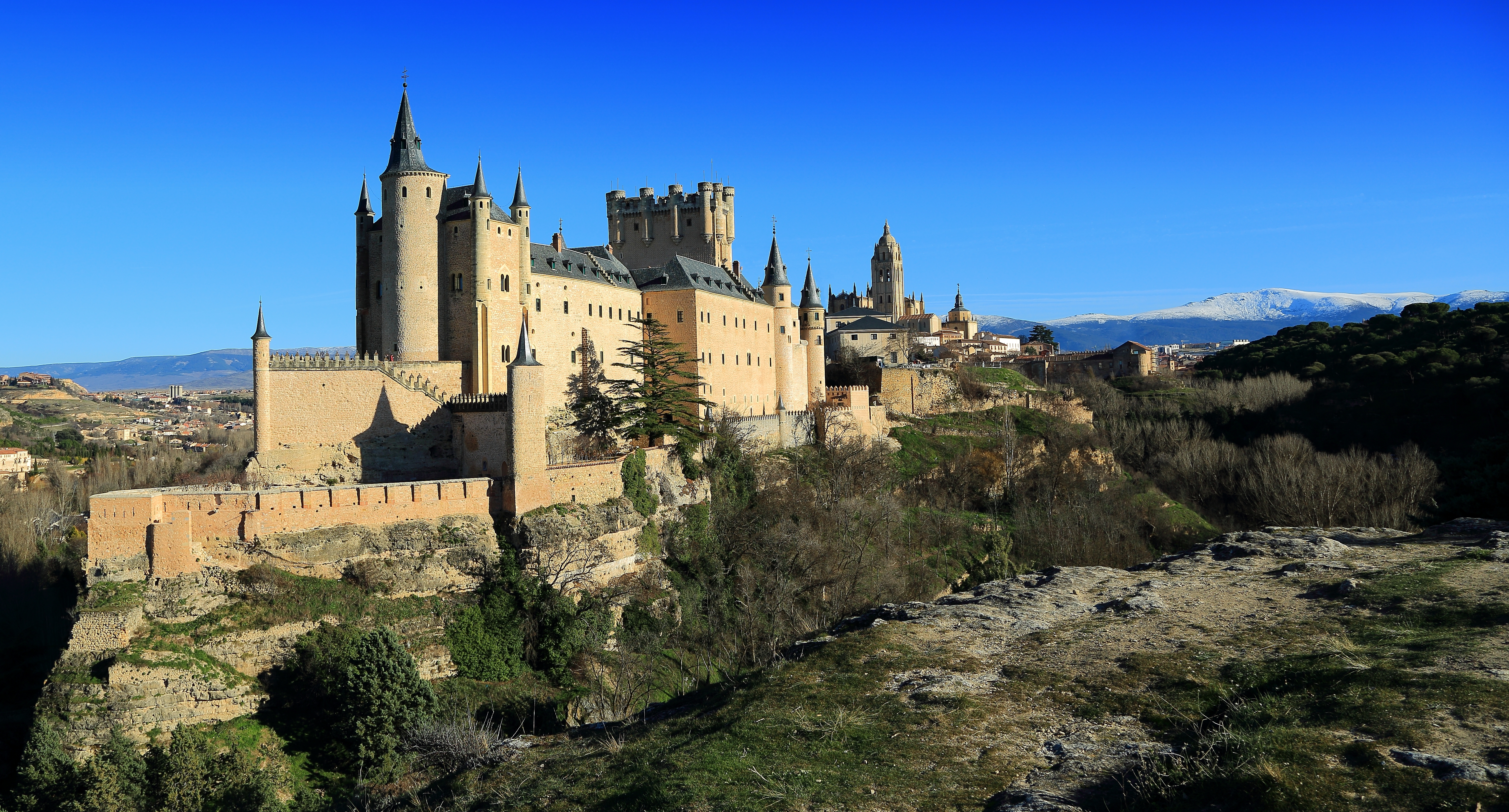 Segovia, España. Alcázar of Segovia (Inventory)Native nameAlcázar de SegoviaParent institutionOld Town of Segovia and its Aqueduct LocationSegovia , (Spain)Coordinates40° 57′ 09″ N, 4° 07′ 58″ W Established1122Web pagealcazardesegovia.comAuthority control : Q557337 VIAF: 237436374 ULAN: 500308864 BIC: RI-51-0000861 GND: 4443101-6 BNE: XX83953 institution QS:P195,Q557337